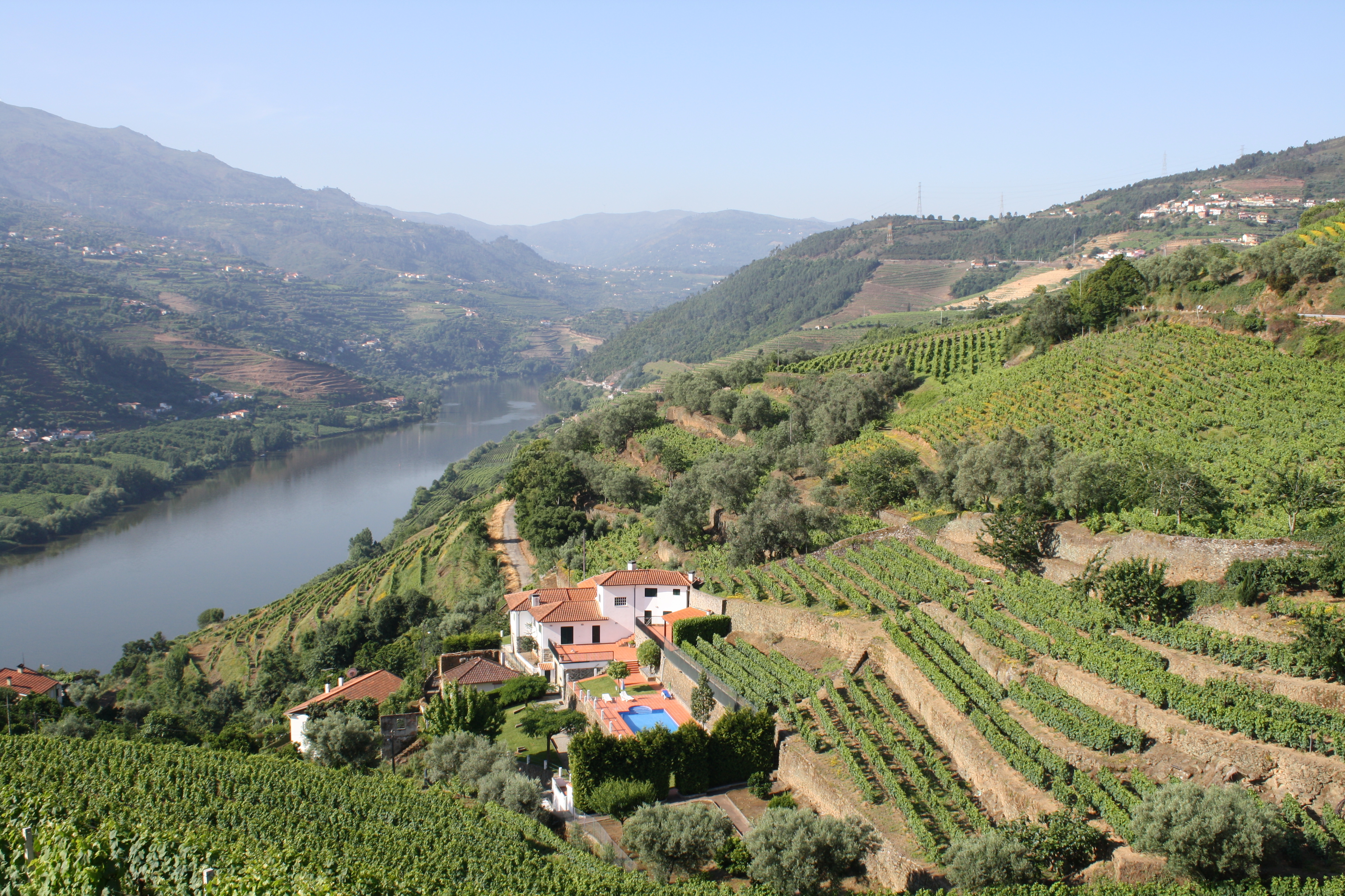 Vineyards in the Douro valley